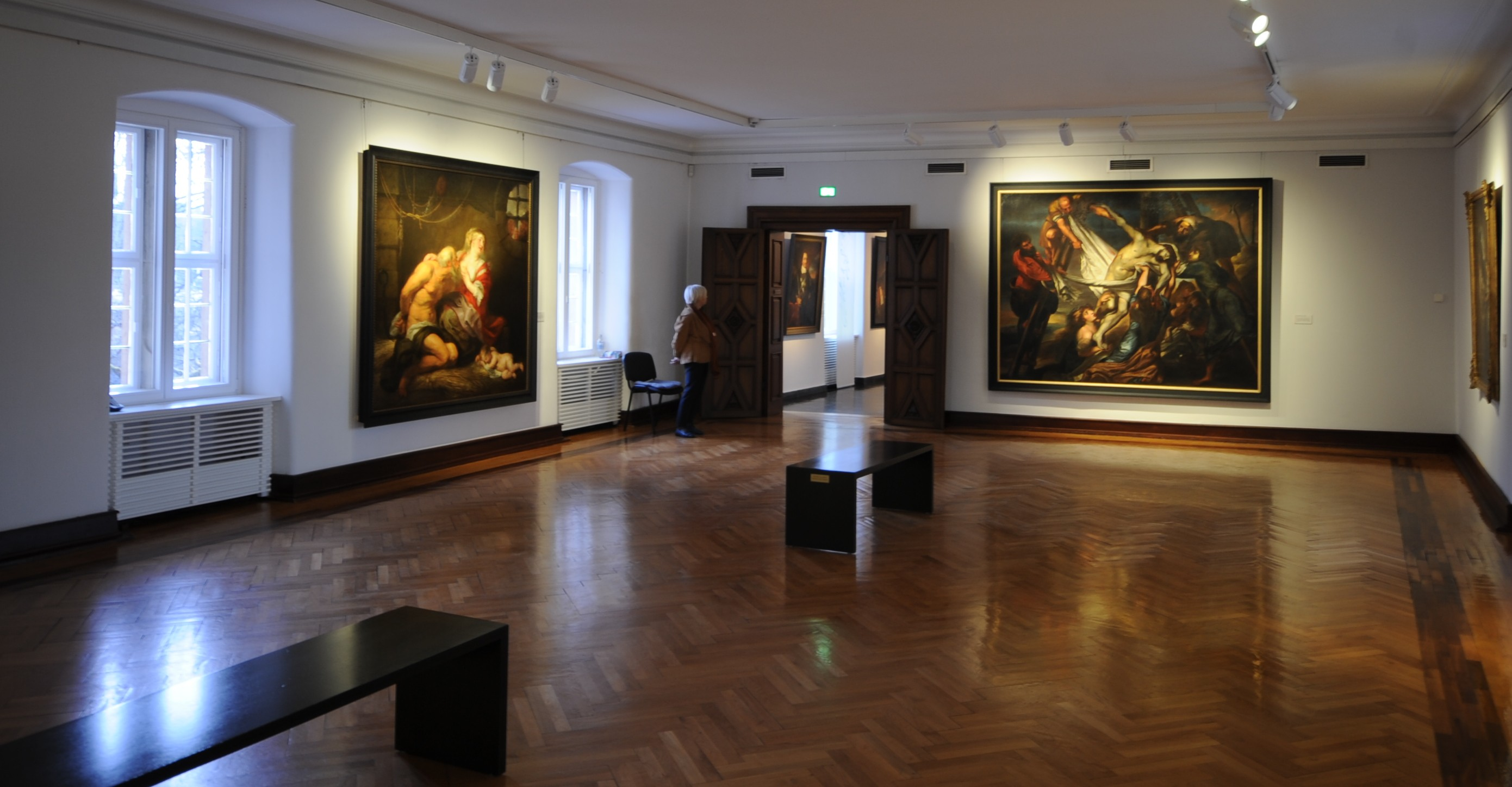 Rubenssaal im Siegerlandmuseum Oberes Schloss mit Rubens Kreuzabnahme